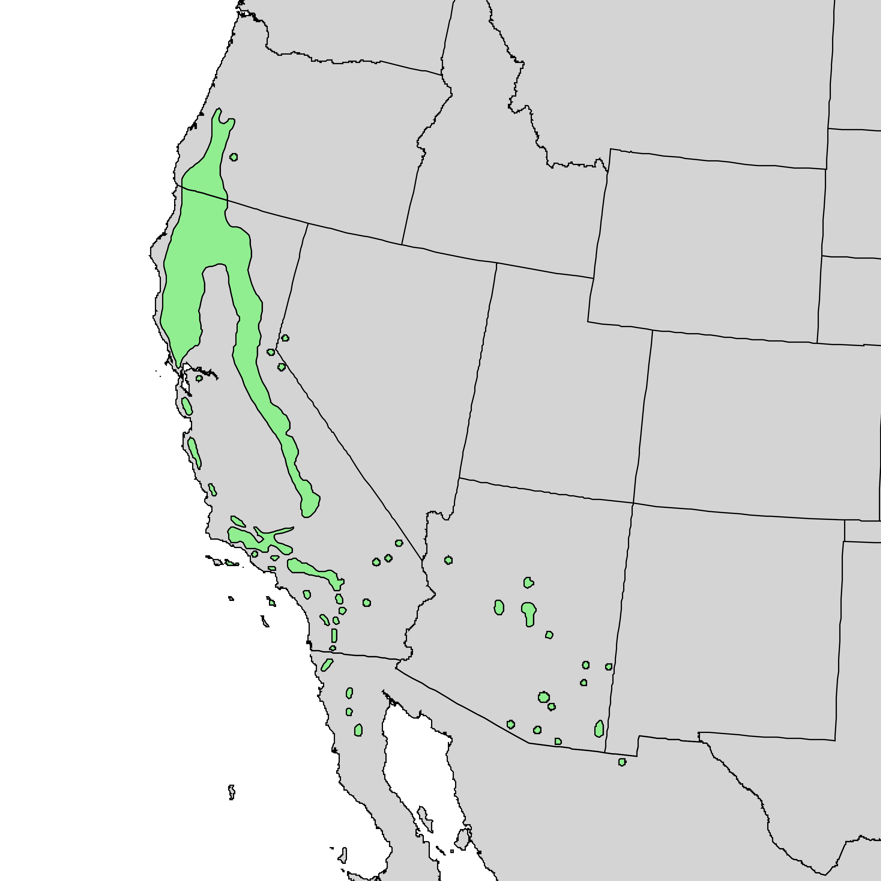 Natural distribution map for Quercus chrysolepis